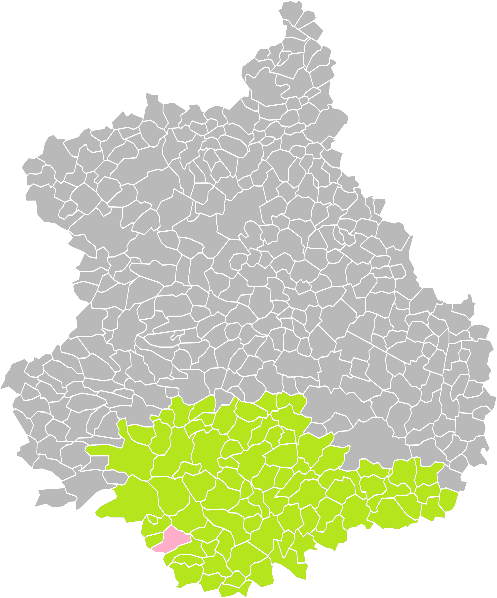 Location of the commune of Langey in the arrondissement of Châteaudun (Eure-et-Loir)